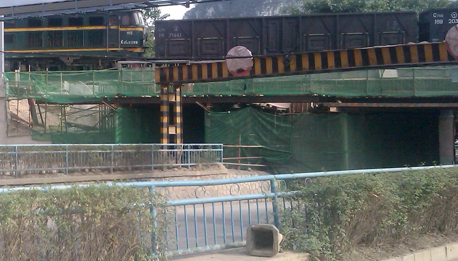 A DF4B Diesel Locomotive in Heishan Railway Overpass,Guilin,Guangxi,China